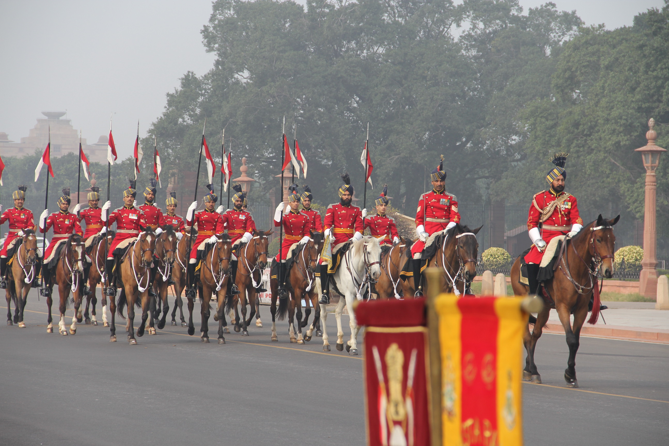 President's Body Guards coming out of the President's house in their winter ceremonial dress.